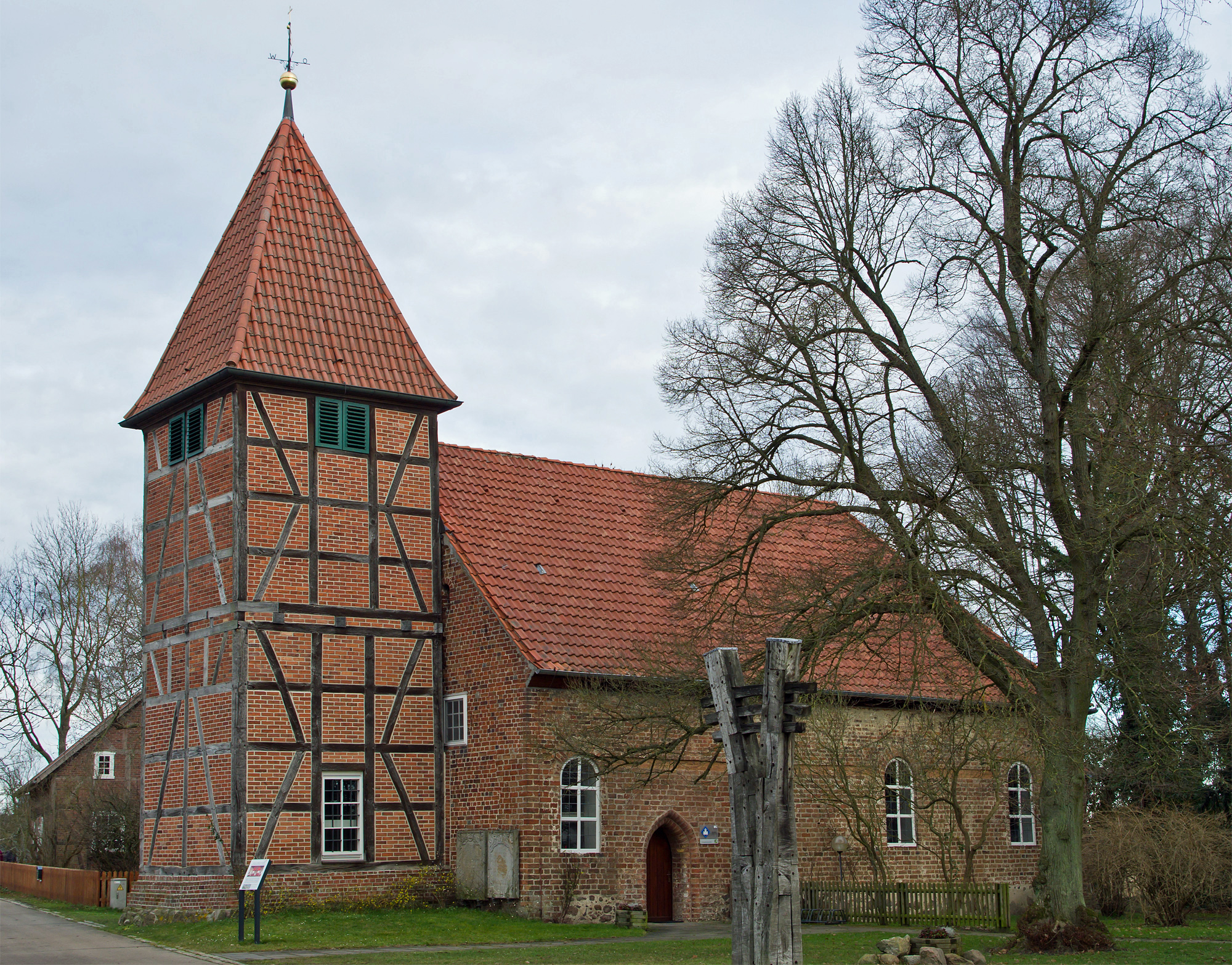 Church of the village Restorf (district Lüchow-Dannenberg, northern Germany).